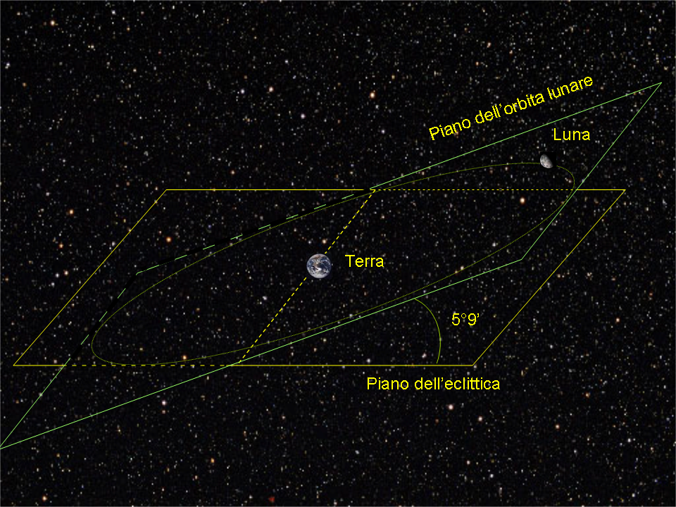 Sideral month. Orbit of Moon that employ about 27 days to complete.